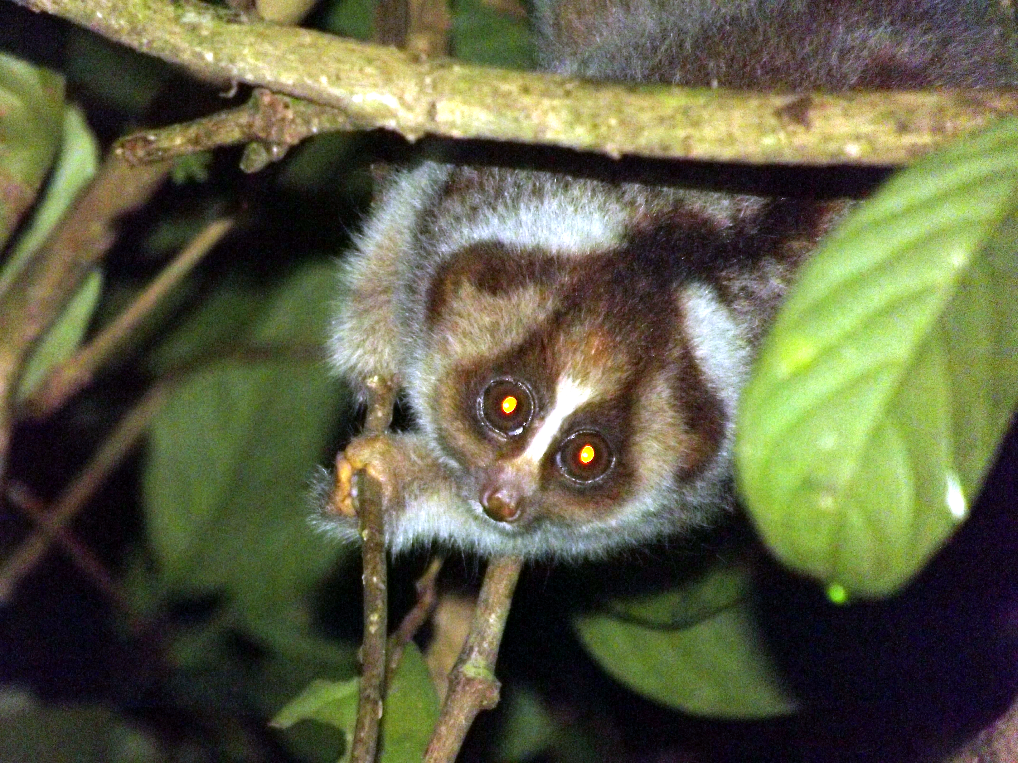 Slow Loris (Nycticebus kayan) in Sabah, Borneo